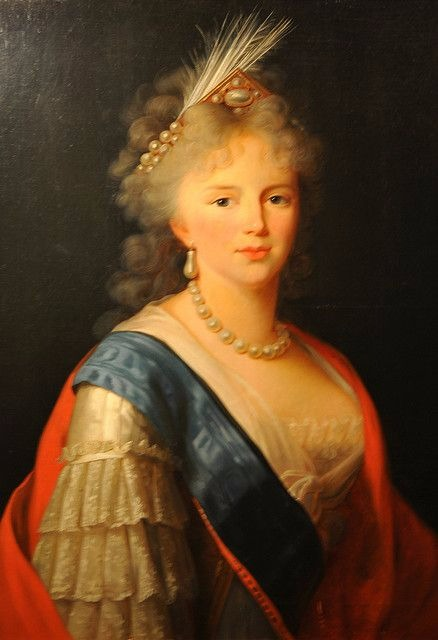 Empress Maria Feodorovna, after Vigee-Le Brun